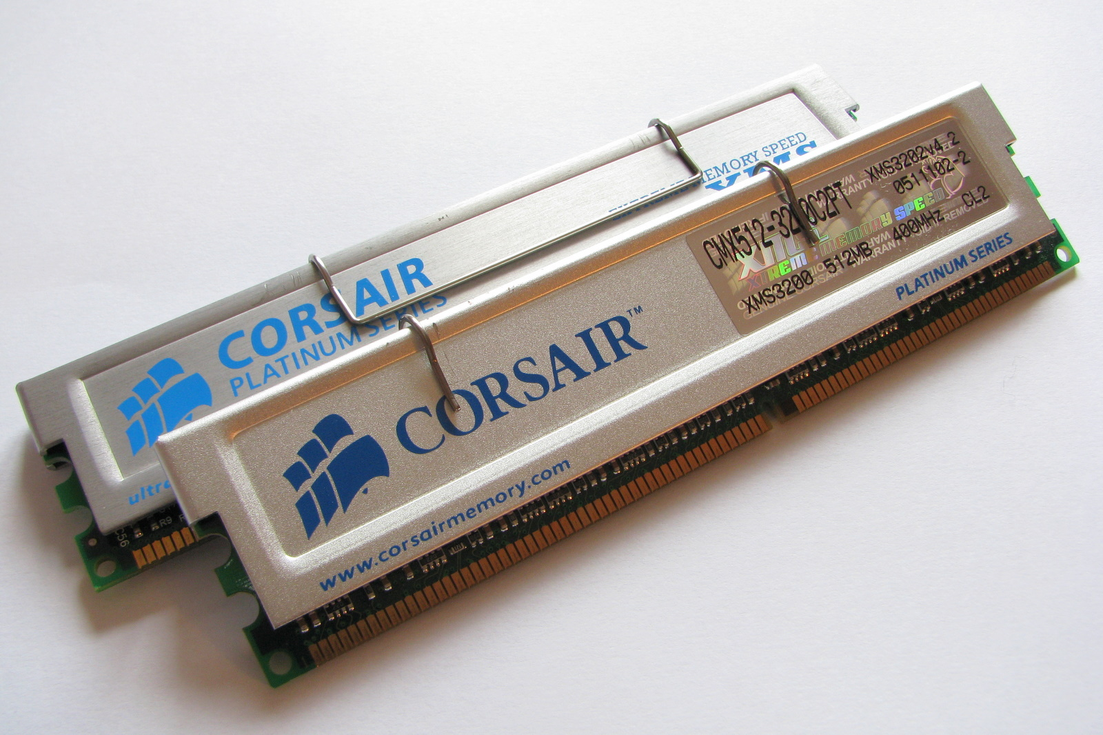 A pair of Corsair DDR Memory Modules. Model CMX512-3200C2PT